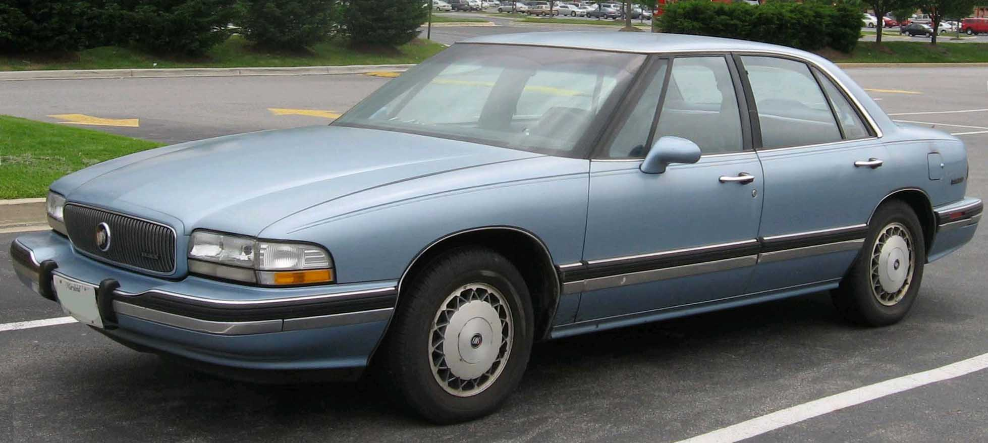 1992-1996 Buick LeSabre photographed in USA.